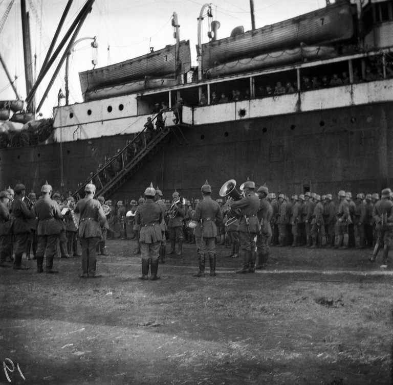 German Baltic Sea Division troops leaving Helsinki.